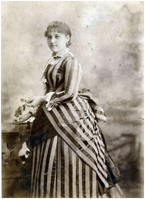 Photo of Jenny Twitchell (Kempton) (1835–1921), taken about 1860, likely in New York City